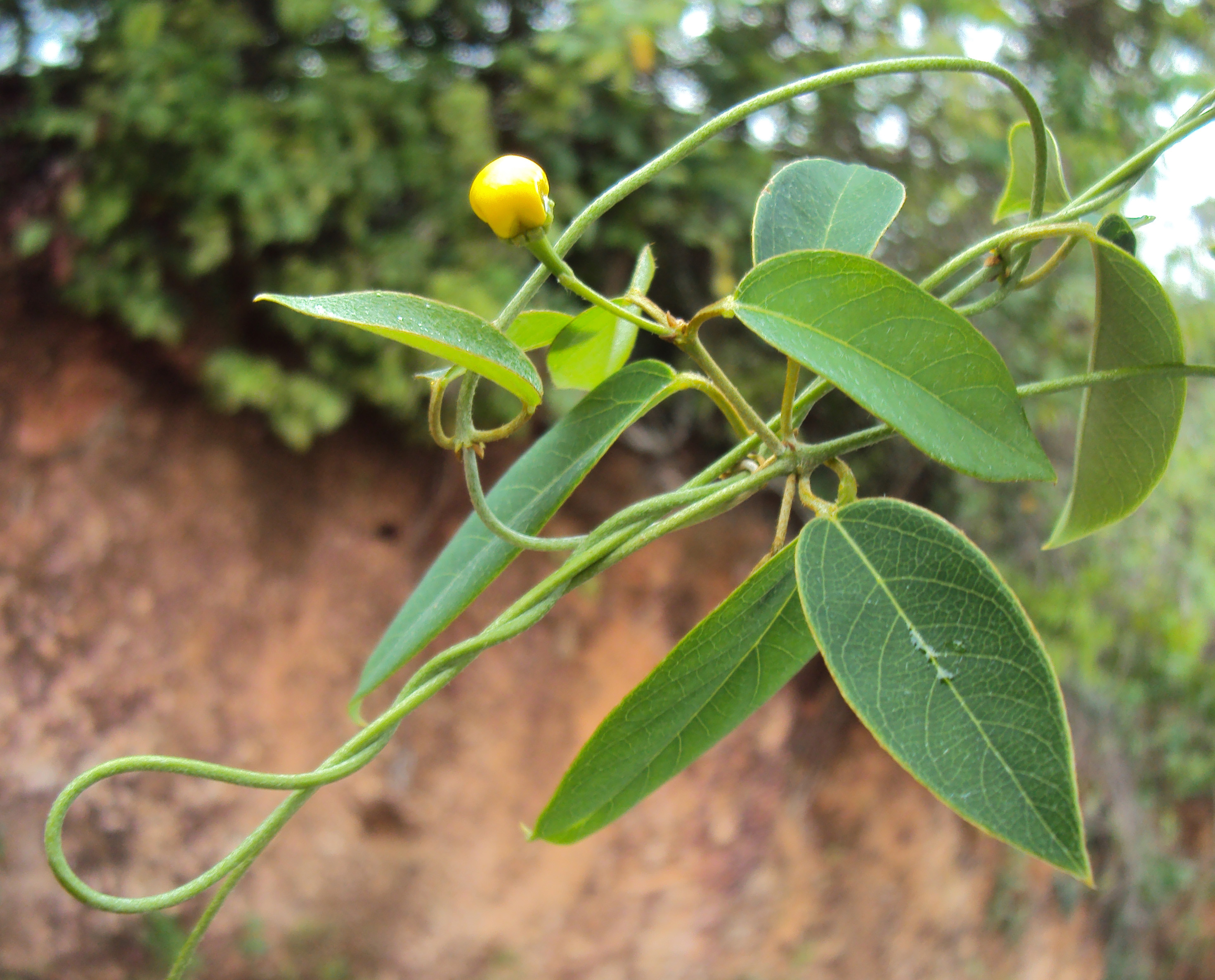 Stigmaphyllon ciliatum